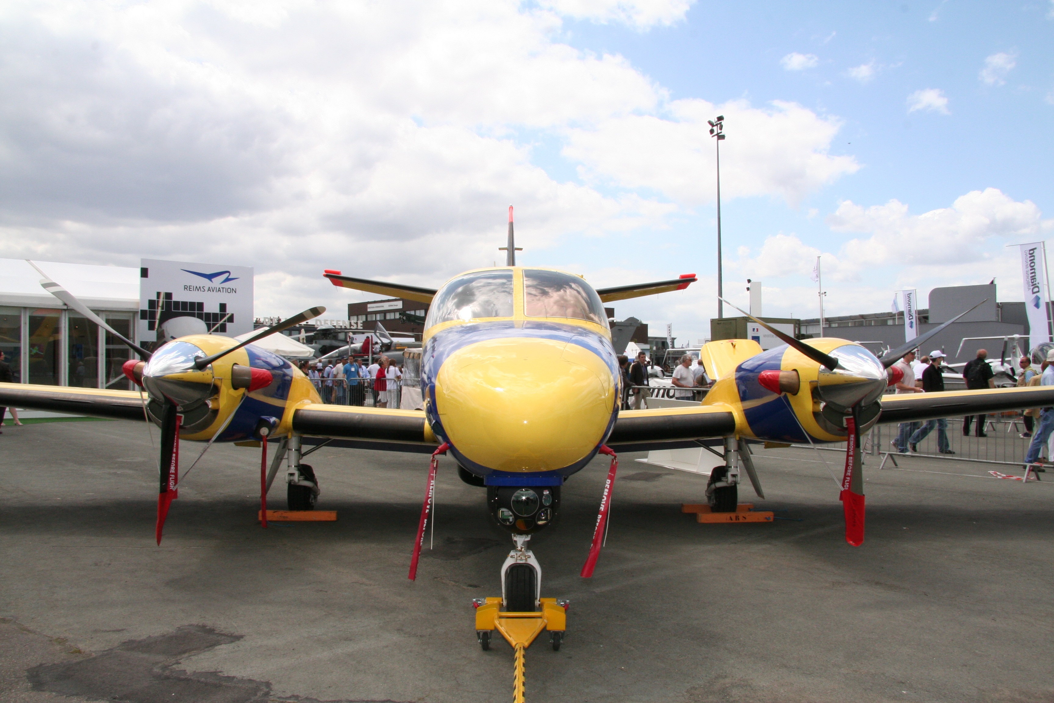 Reims-Cessna F406 Caravan II - Paris Air Show 2009